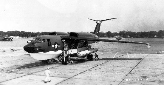 Martin P6M-2 "SeaMaster" flying boat on ramp following taxying out of water.